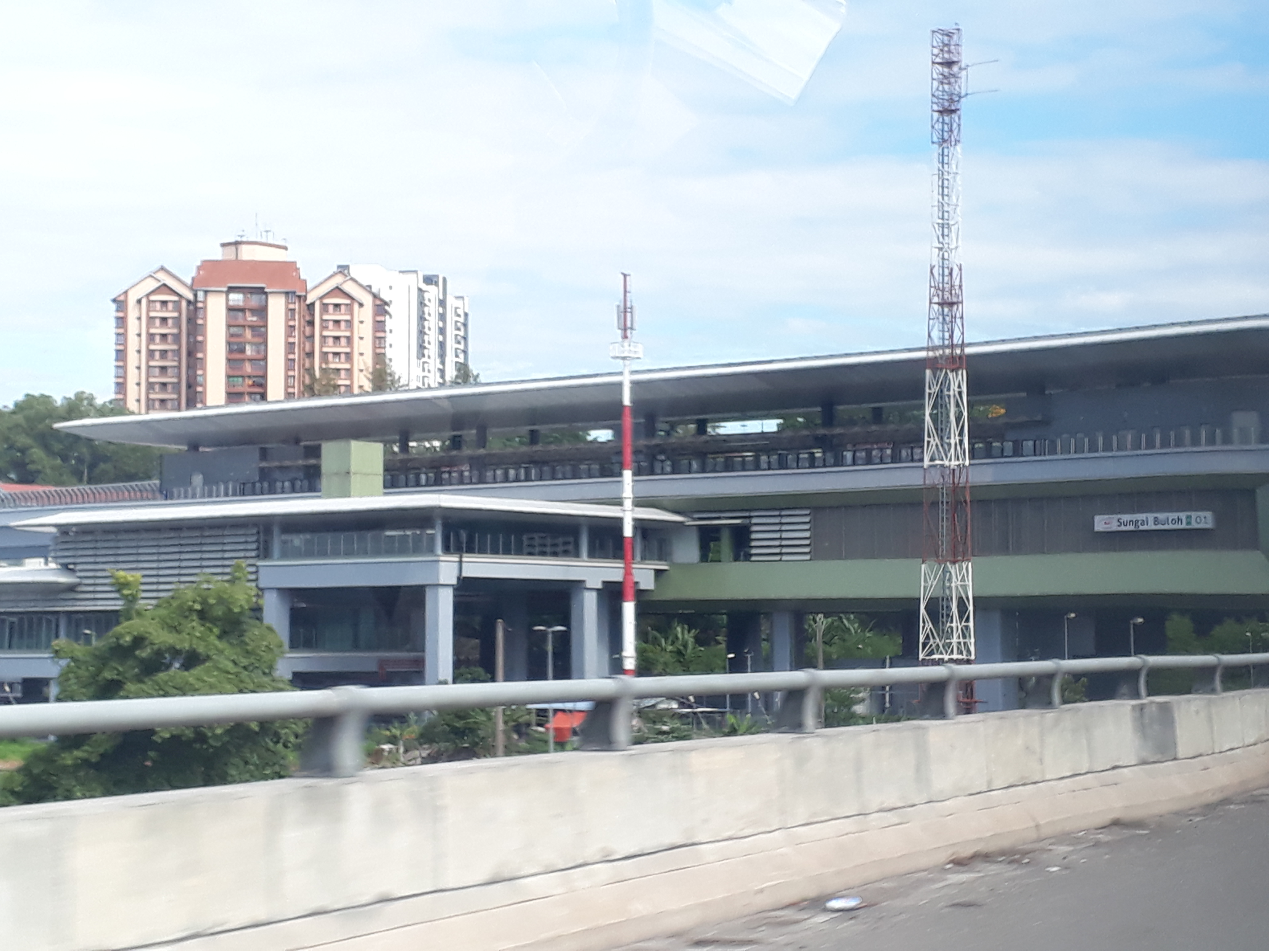 Sungai Buloh